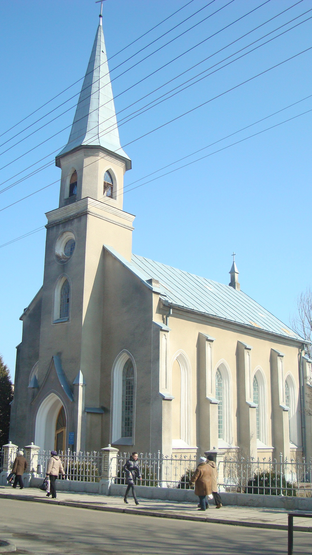 Stryi Baptist Church